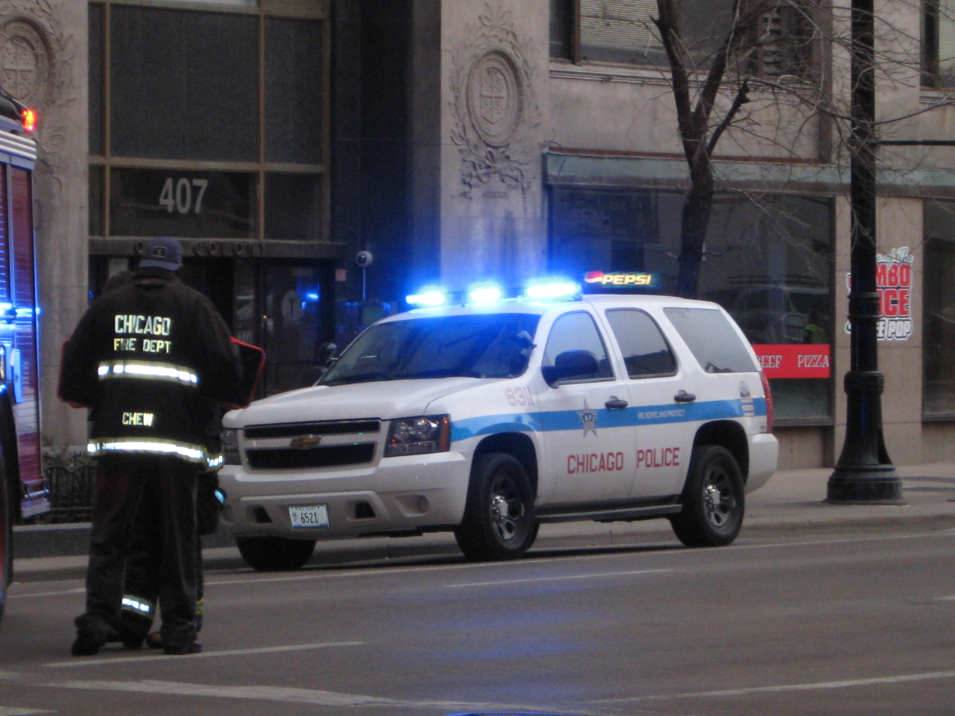 An SUV of the Chicago Police Dept.